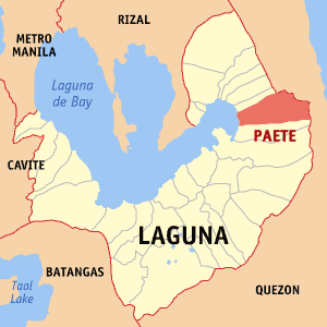 Locator map of Paete in Laguna, Philippines.